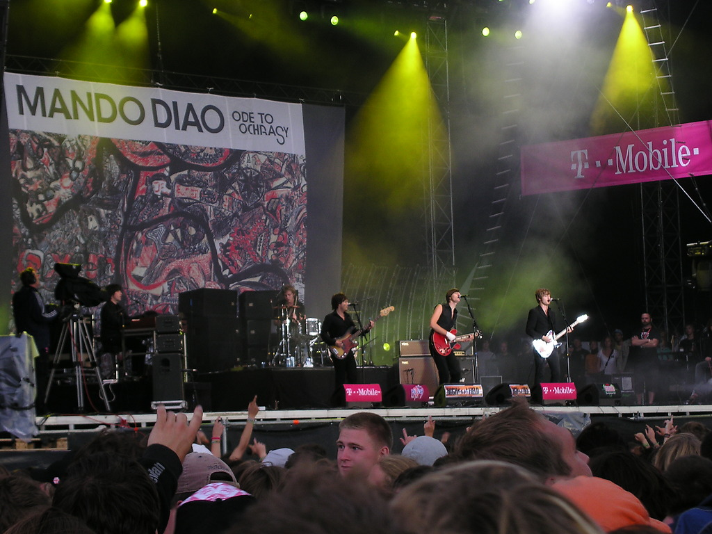 Mando Diao live at Highfield 2006